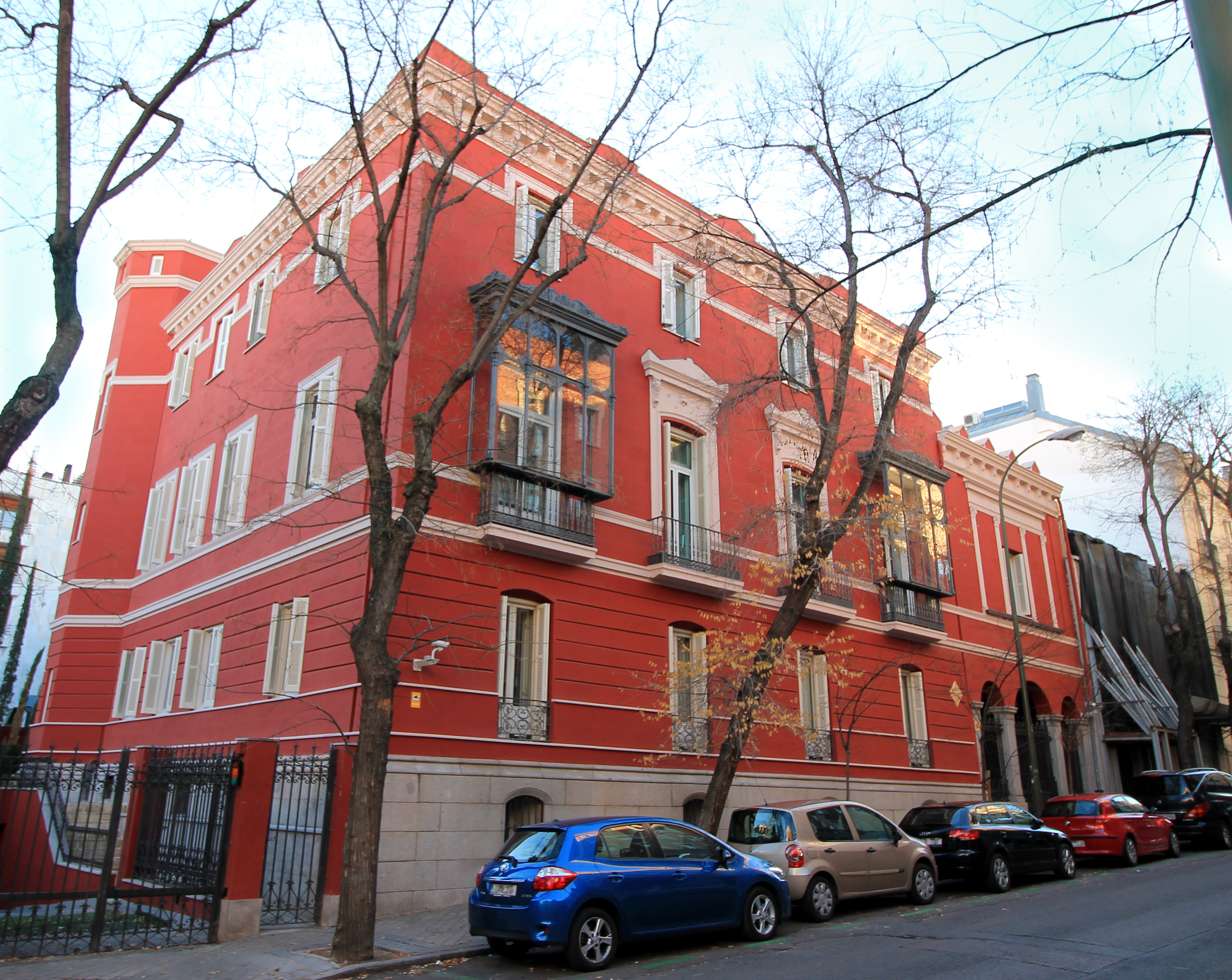 Façade of the mansion of Carlos María de Castro in Madrid (Spain).